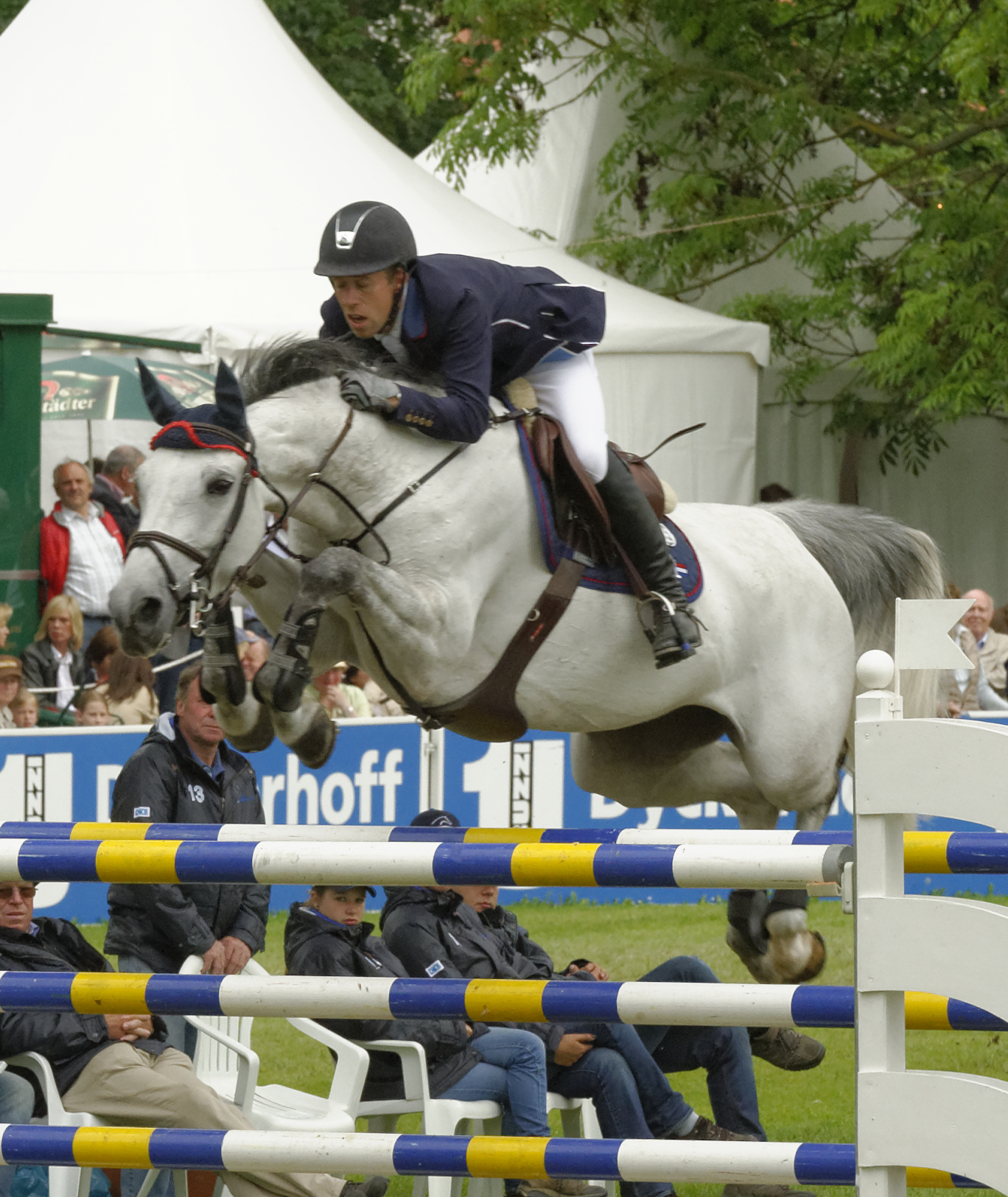 Internationales Pfingstturnier Wiesbaden 2013 The making of this document was supported by the Community-Budget of Wikimedia Germany.